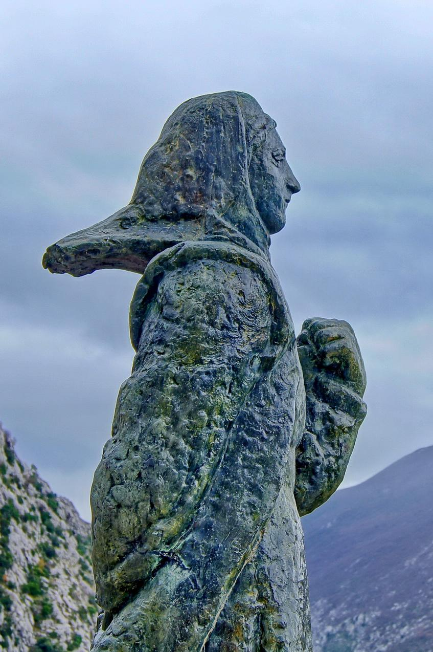 Mile Gojsalića; Statue by Ivan Meštrović, at Omiš, 2011-12-16